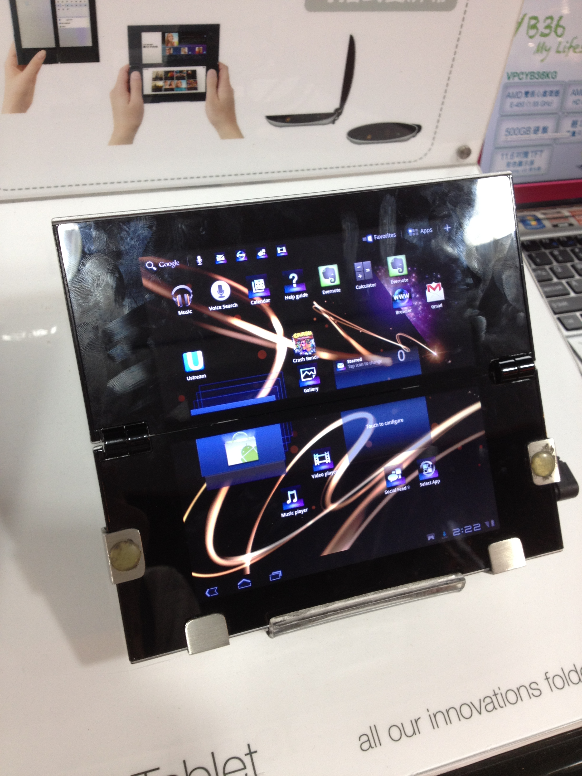 Sony Tablet P, showing home screen in fully open position. Running Android 3.2